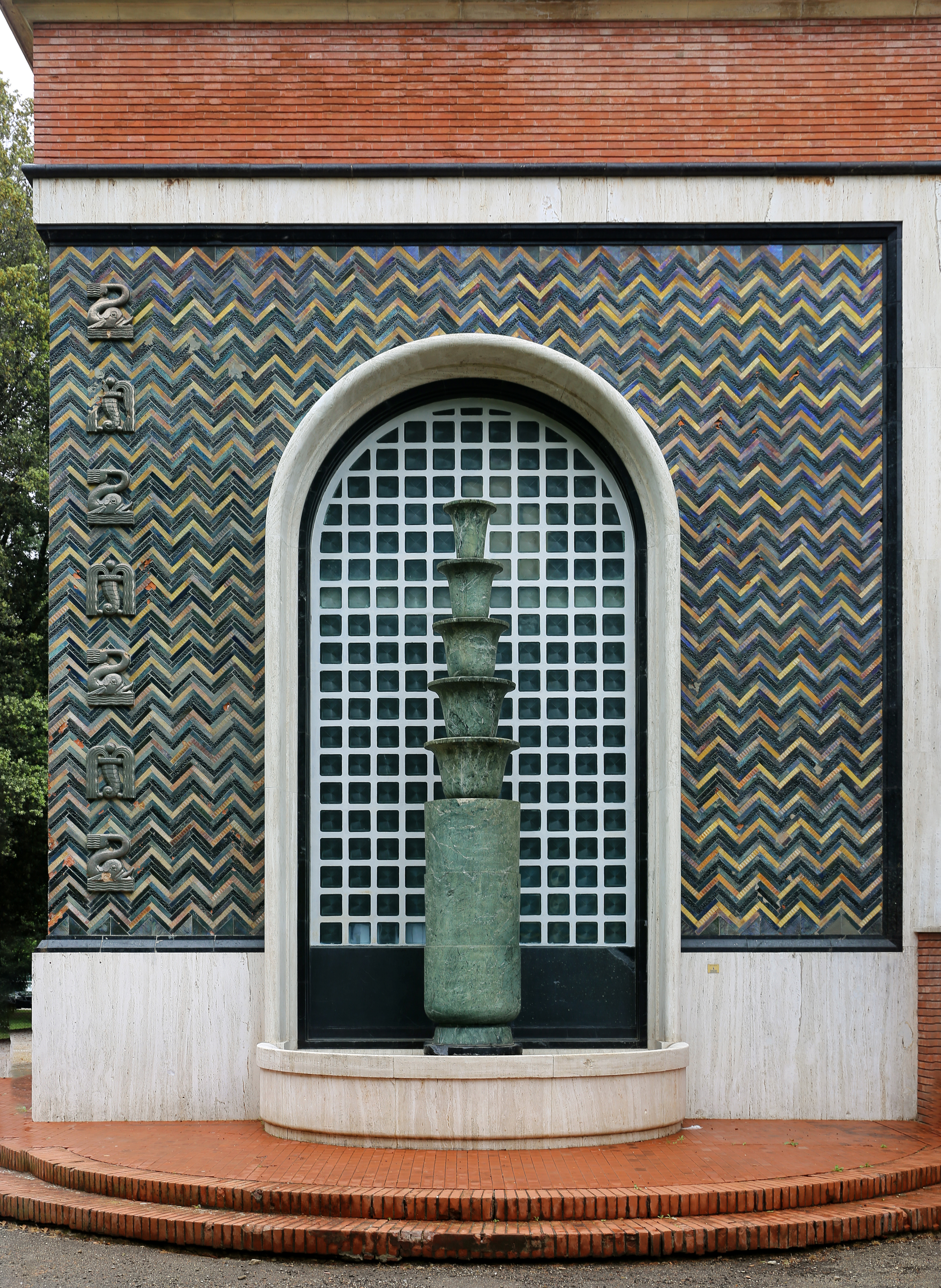 Padiglione delle Feste (Castrocaro Terme)